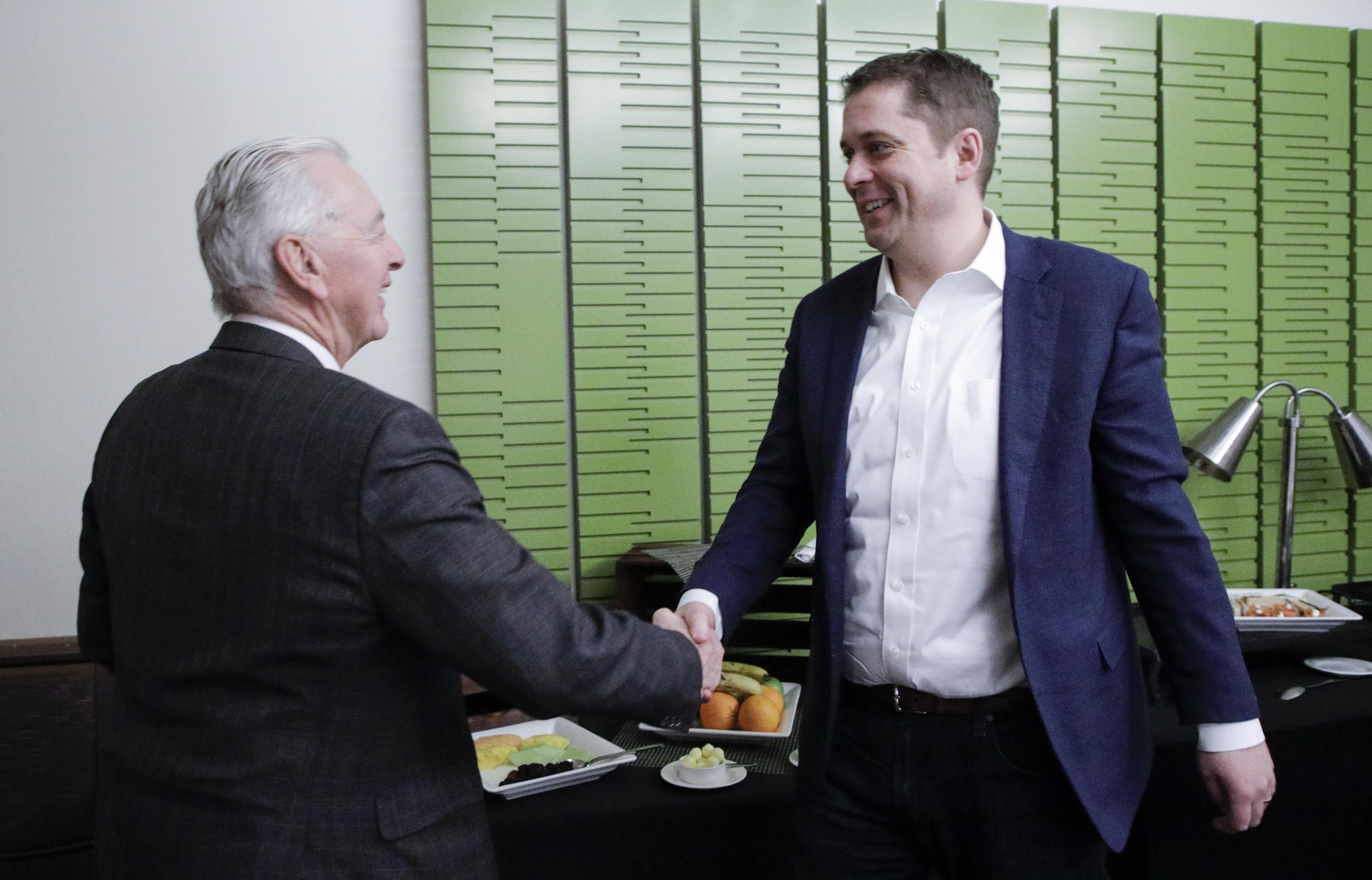 Preston Manning and Andrew Scheer in 2019 at MNC2019